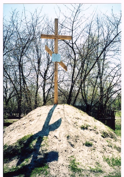 Memorial Cross Cossacks, tortured in the investigative office, on the streets of the Border in Lebedin